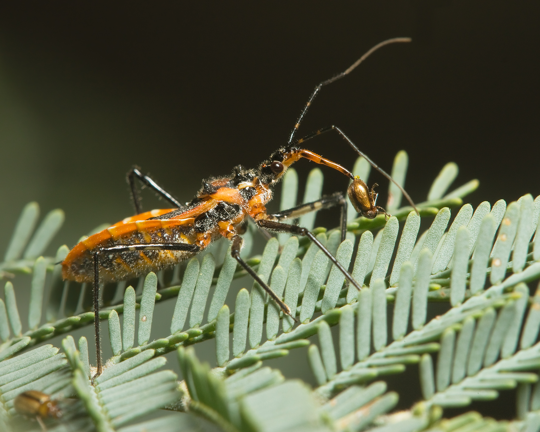 Assassin Bug (Gminatus australis), Austin's Ferry, Tasmania, Australia